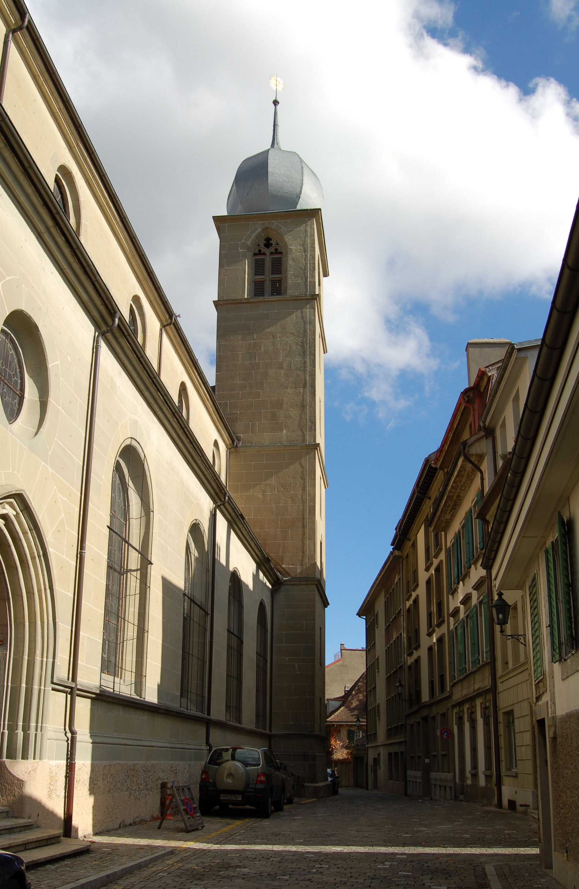 Fribourg, Switzerland